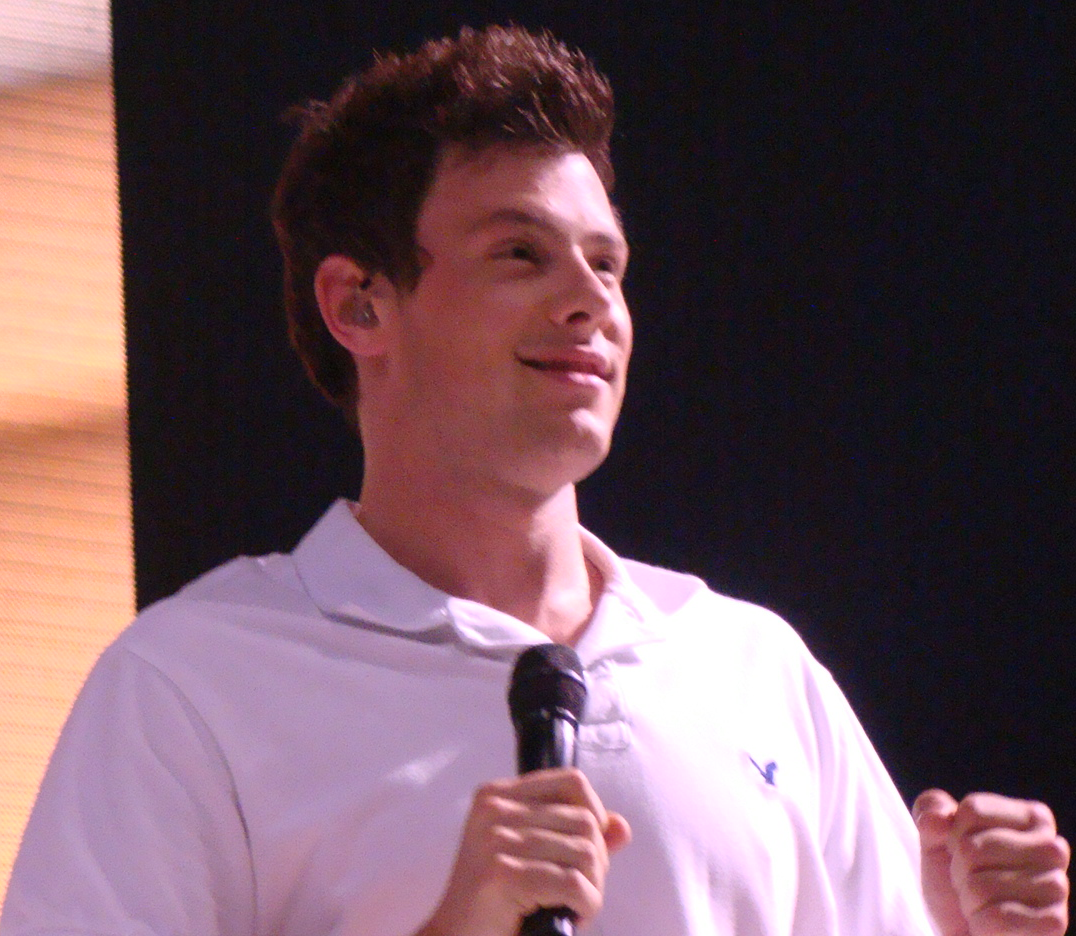 Cory Monteith as Finn Hudson on the Glee Live! In Concert! tour.